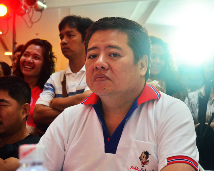 Somkiat Kunanitipong